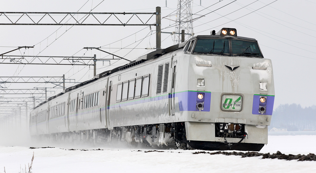 JR Hokkaido's JNR 183 series DMU, operating as the LTD. Express Okhotsk 2 ( 12D, Kiha 183-215 and others. Minenobu Stn. - Iwamizawa Stn. )